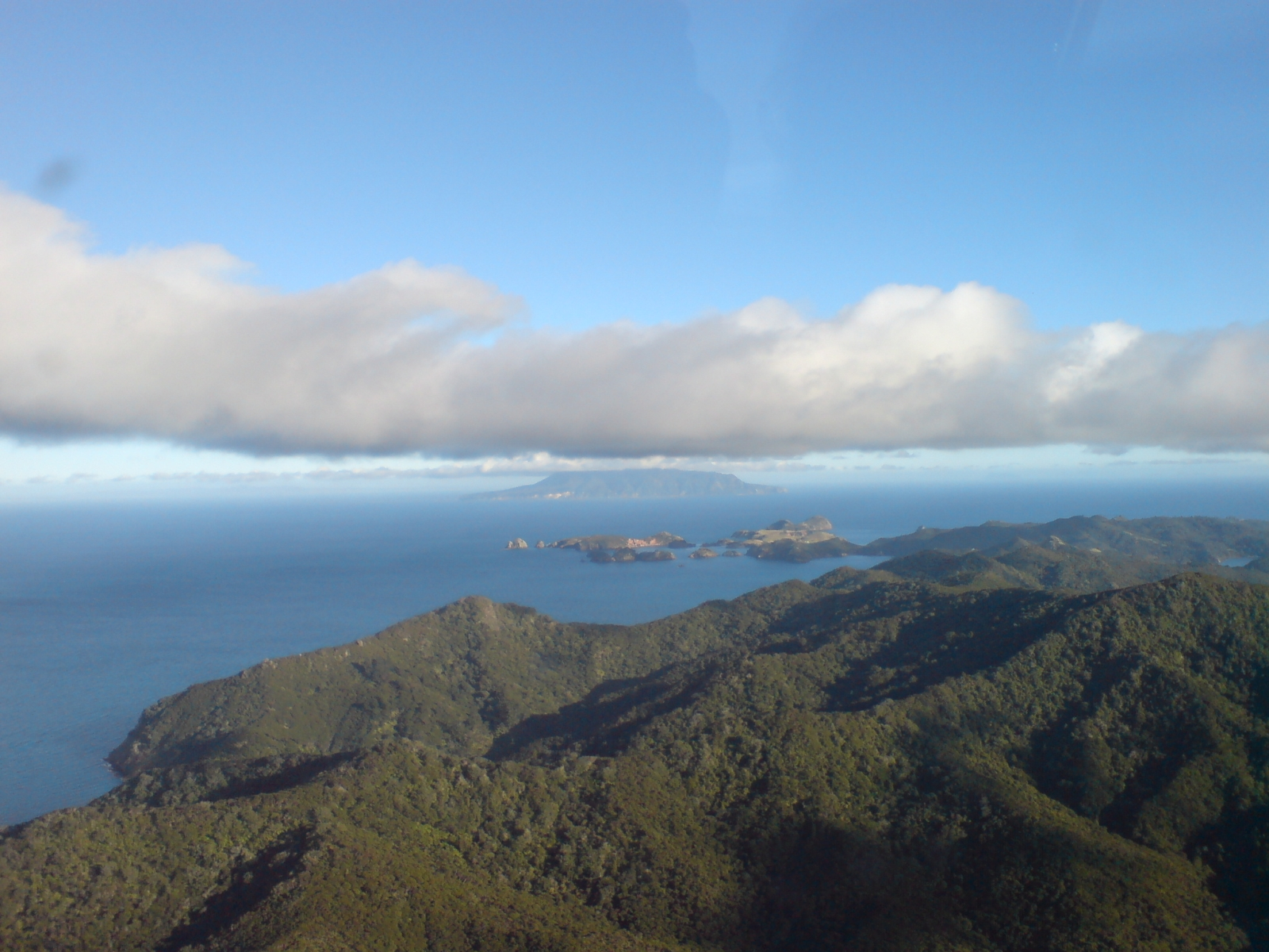 Little Barrier Island, New Zealand, seen from a light plane over Great Barrier Island flying west.